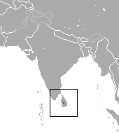 Pearson's Long-clawed Shrew (Solisorex pearsoni) range